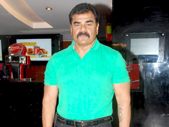 Sharat Saxena at the launch of first look of 'Sahi Dhandhe Galat Bande'